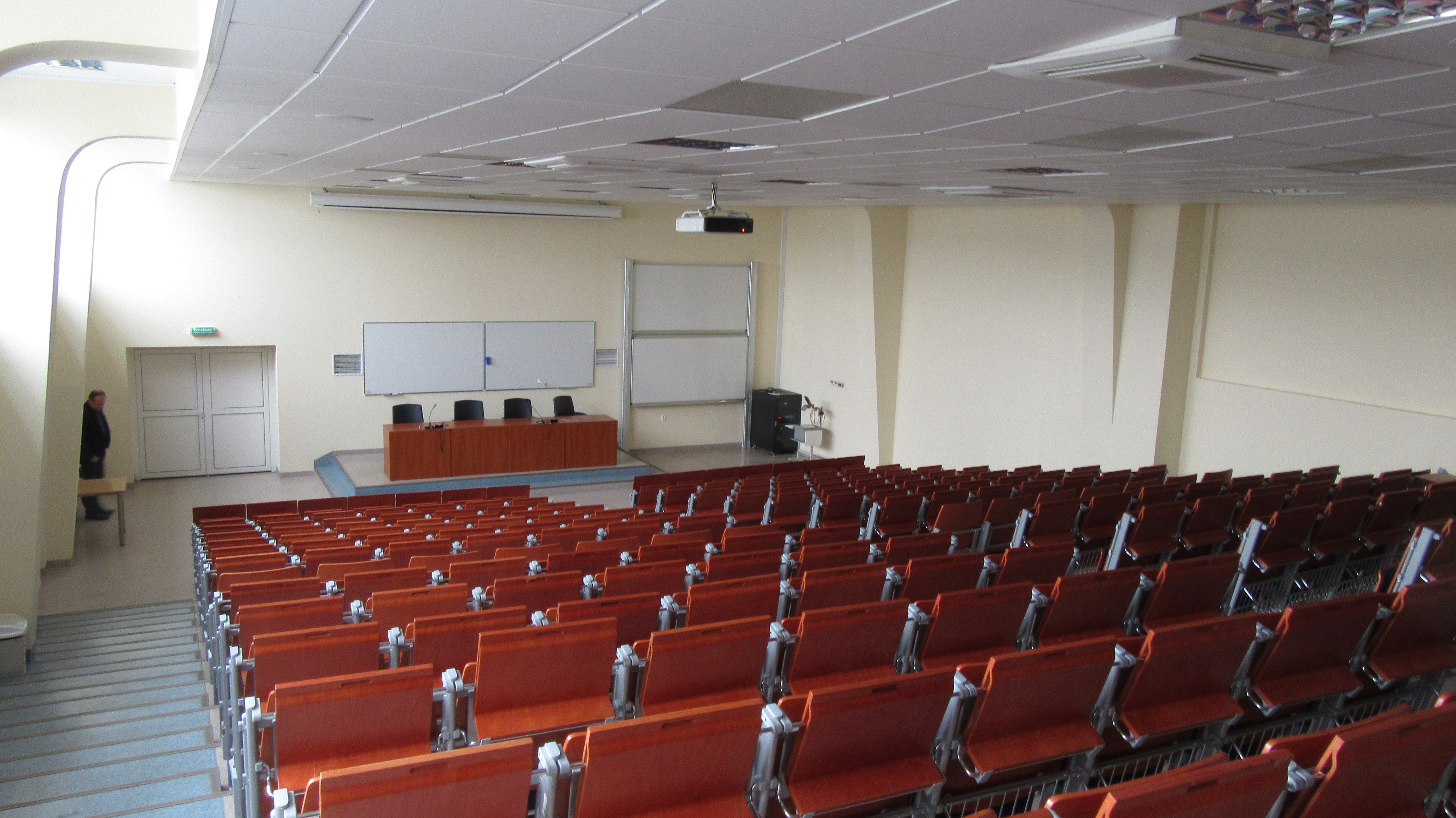 Faculty of Navigation Gdynia Maritime University, Poland. Grand auditory